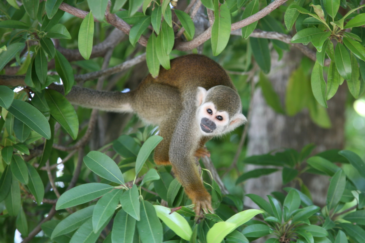 Golden-backed squirrel monkey (Saimiri ustus). Yellow or orange color in forearms does'n extend above the wrists.